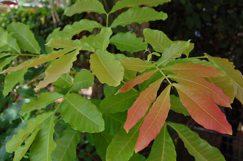 Schleichera oleosa, young leaves. Jakarta.